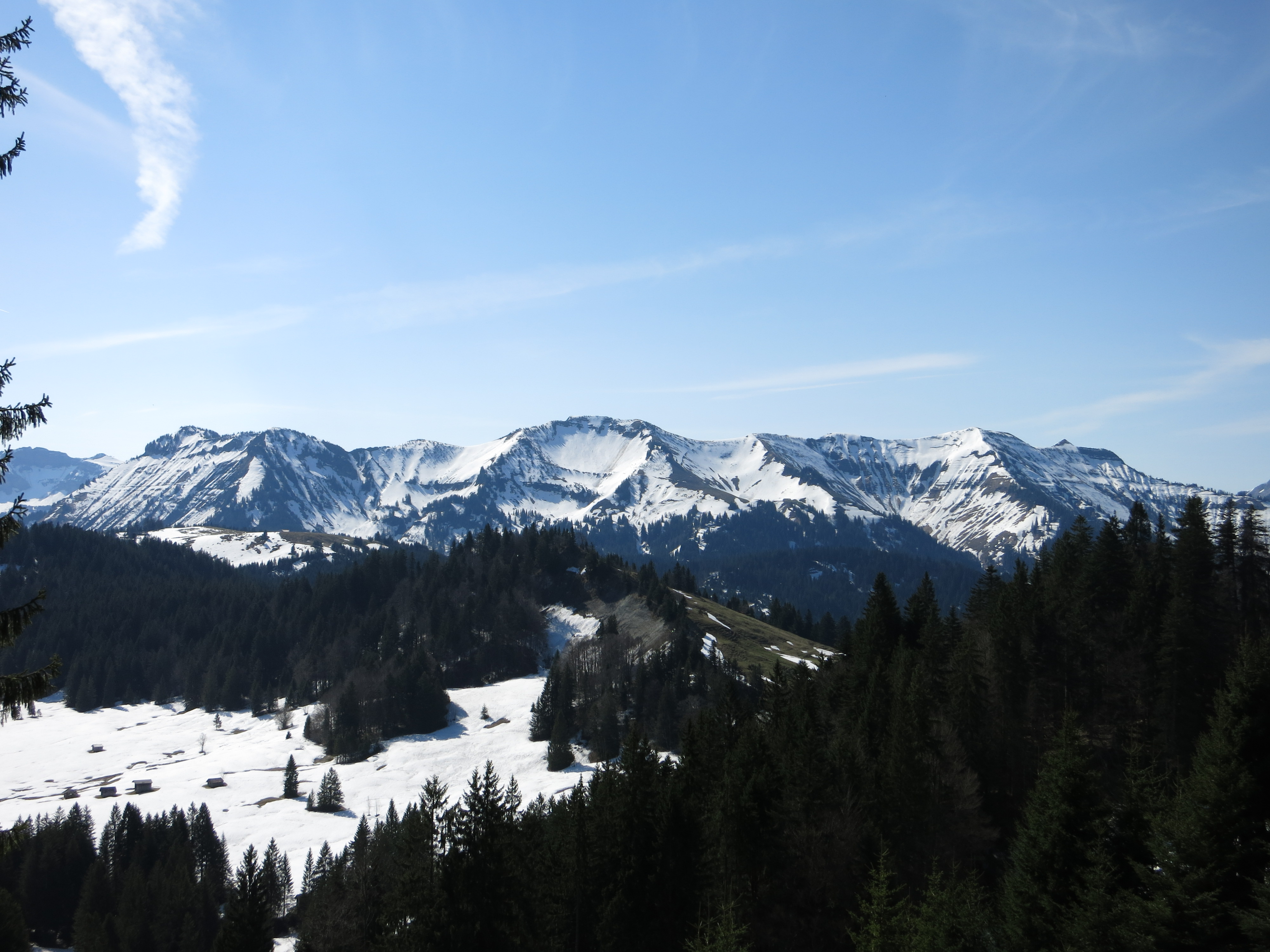 Mountain range Dornbirner First, seen from north